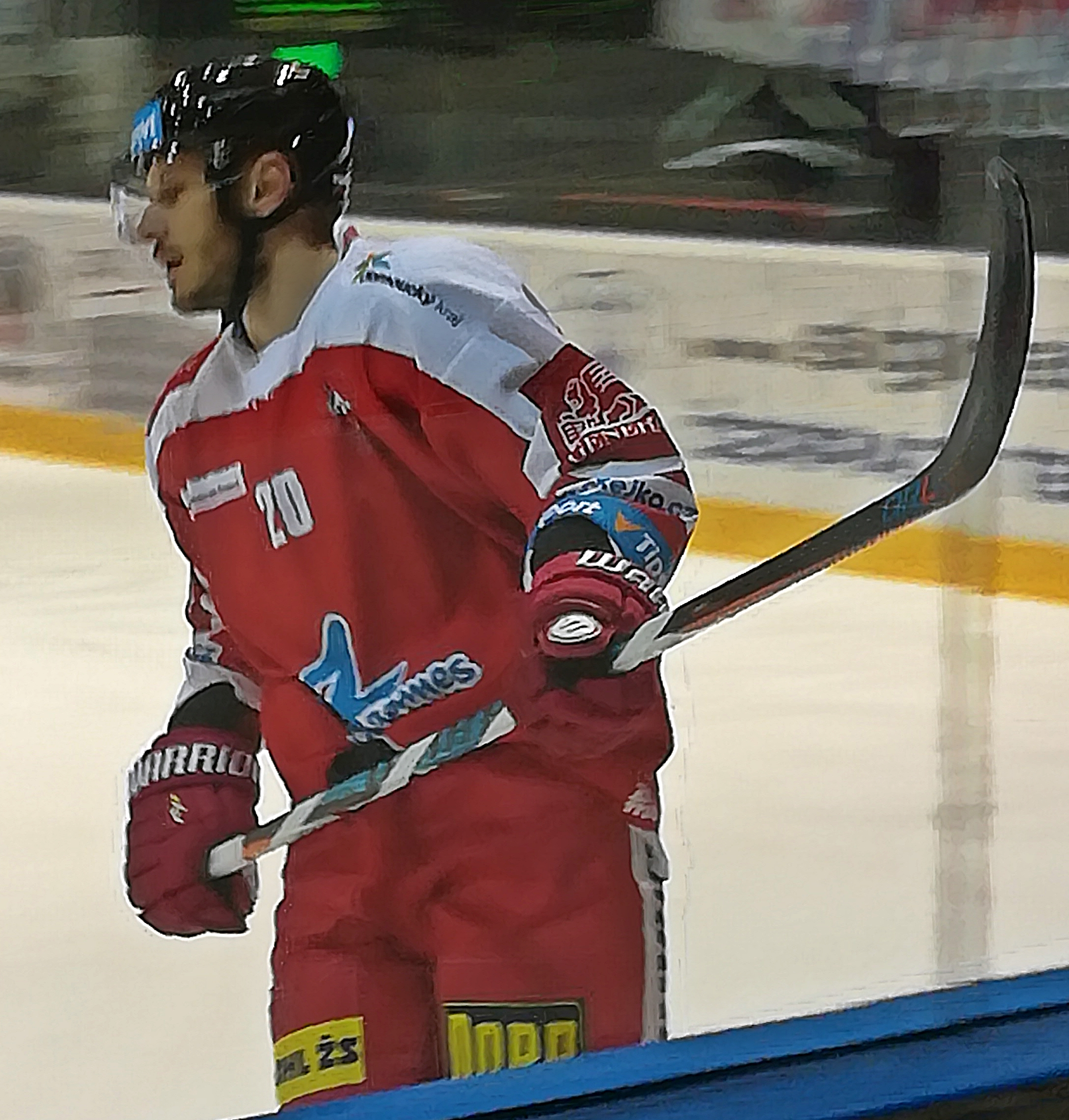 HC Olomouc - HC Dynamo Pardubice